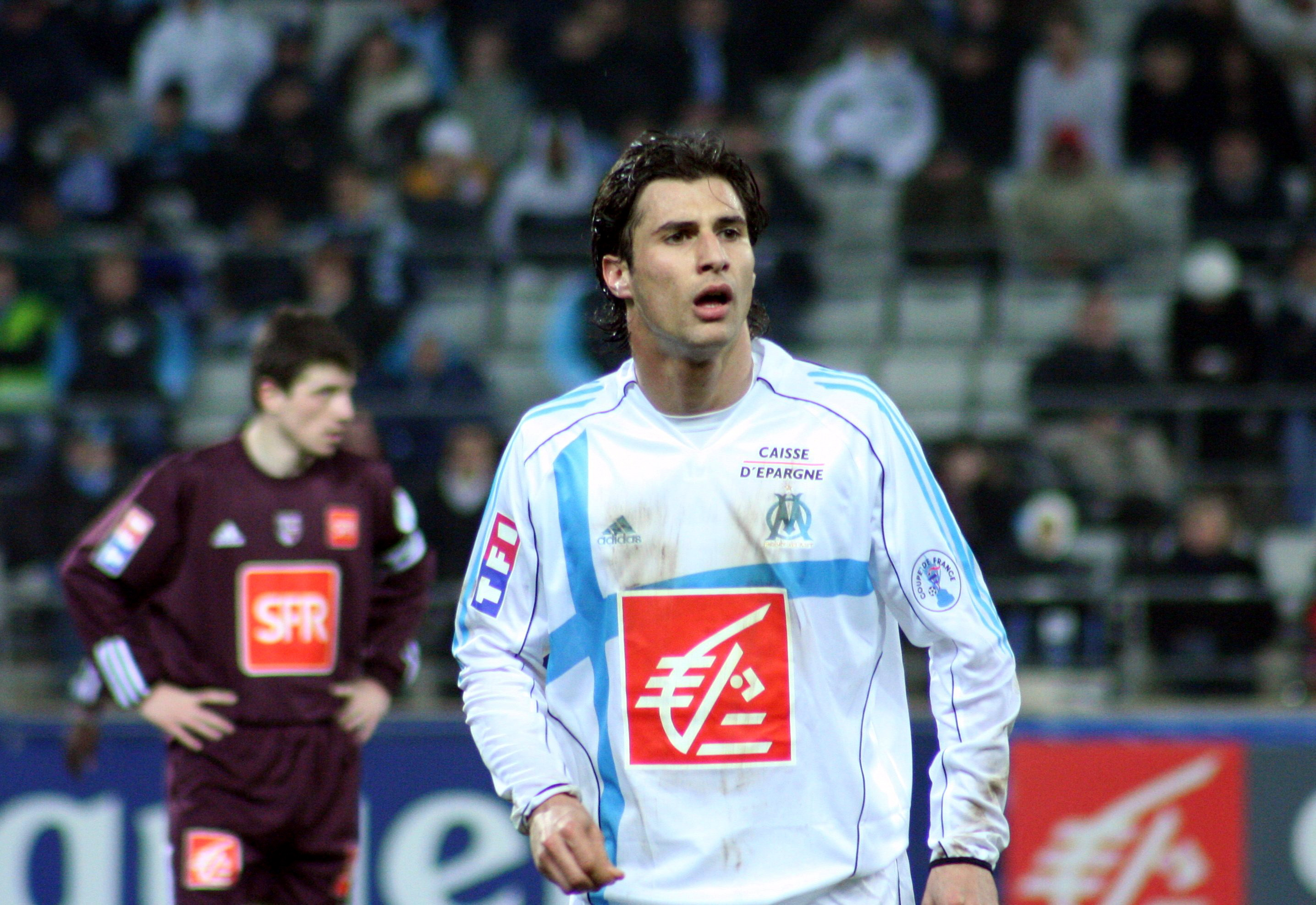 Picture of Lorik Cana during round of 32 of "Coupe de France" Versus FC Metz